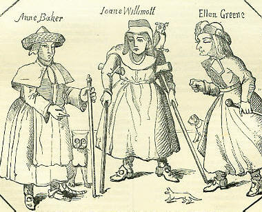 Three of the women examined in the case of the Witches of Belvoir